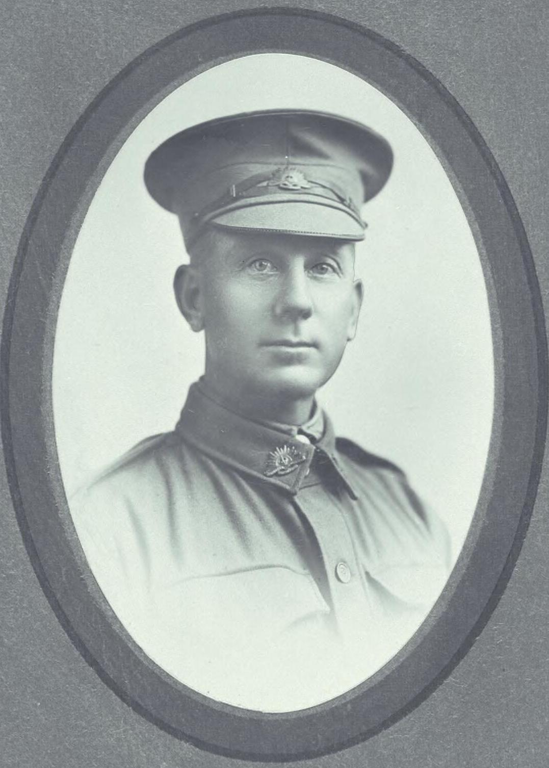 Australian politician George Edwin Yates